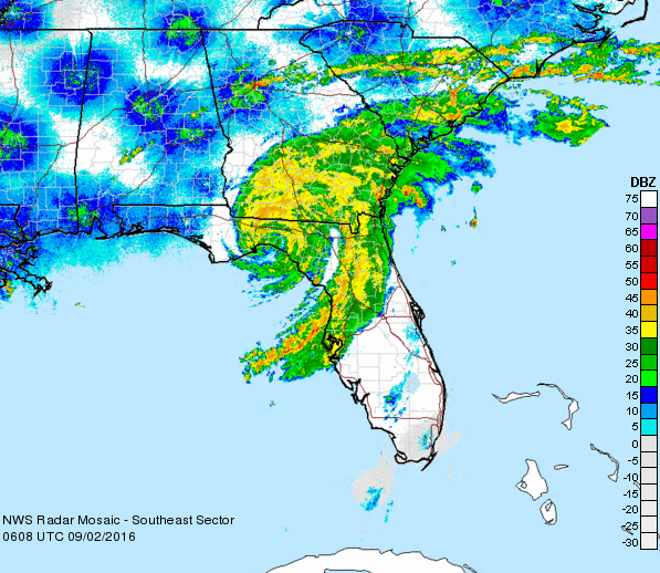 Radar image of Hurricane Hermine at 02:08 EDT (06:08 UTC) on 2 September 2016, about 40 minutes after making landfall.